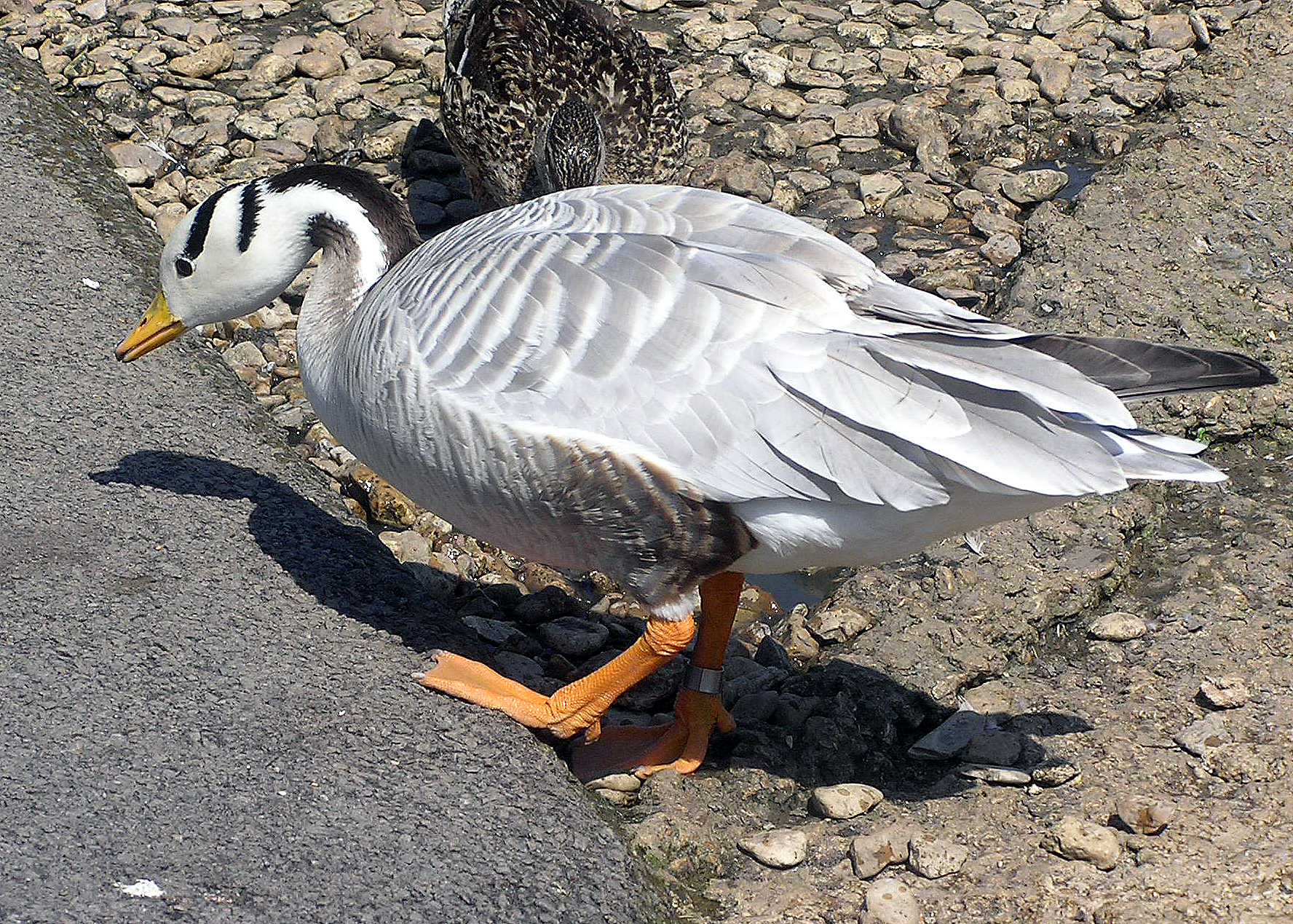 Bar-headed Goose Anser indicus at Slimbridge Wildfowl and Wetlands Centre, Gloucestershire, England. Photographed by Adrian Pingstone in June 2004 and placed in the public domain.